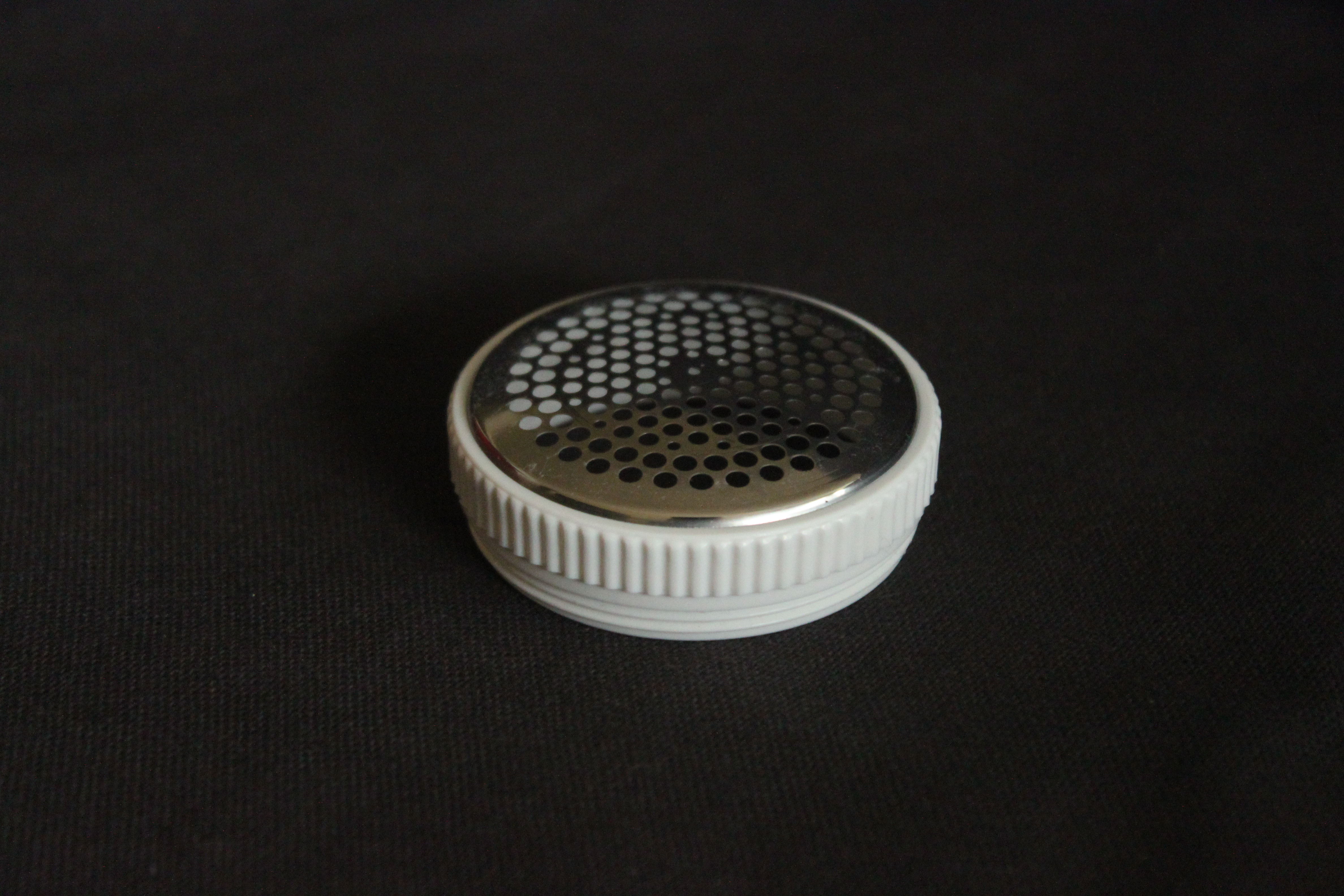 Part of Unix fabric shaver: blade net